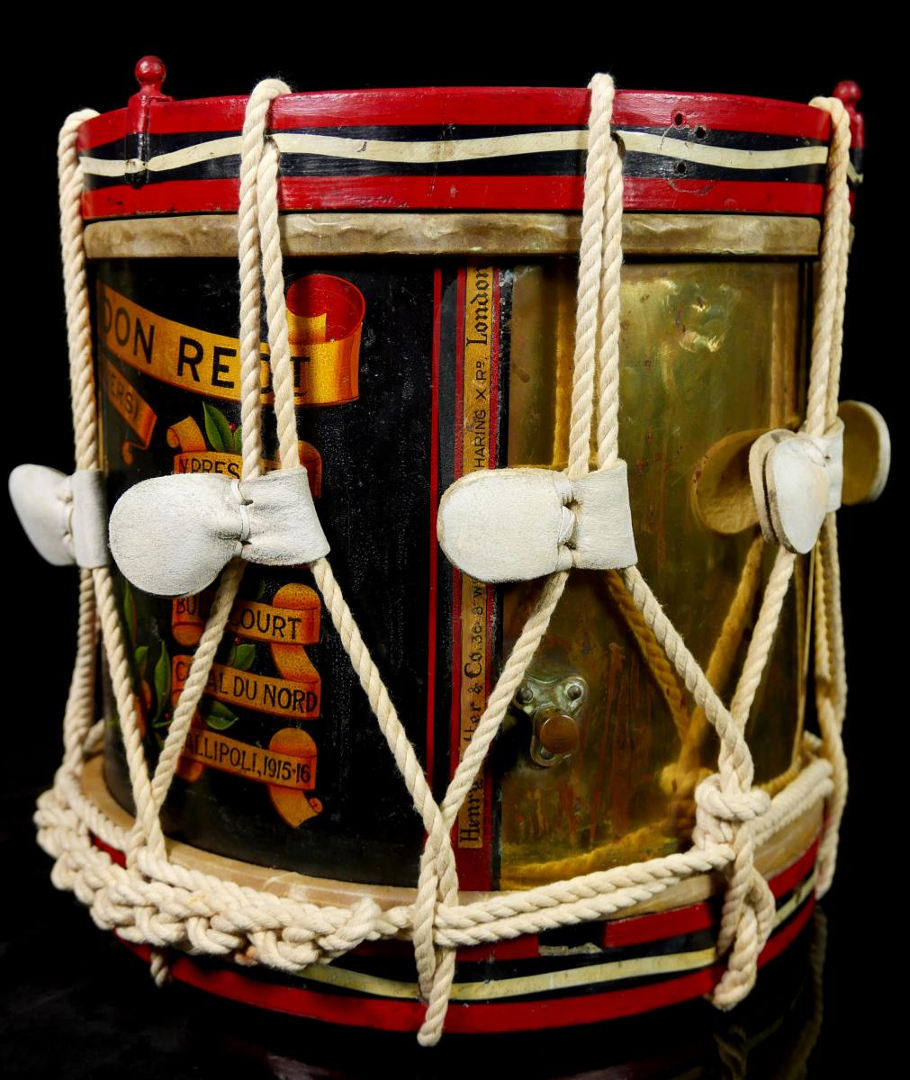 4th City of London Regiment (Royal Fusiliers) – King George V Side Drum, made and issued in 1919 to mark the granting of new Battle Honours won during the First World War. Emblazoned by Henry Potter & Co., 36-8 West Street, Charing X Road, London (signature visible), with the City of London coat of arms, over the Royal Fusiliers’ crowned Tudor rose within the Garter, flanked by Battle Honours of the First World War (brass cylinder, wood hoops, leather tab and rope tensioning, height: 36cm (14.25in), diameter 37cm (14.5in))